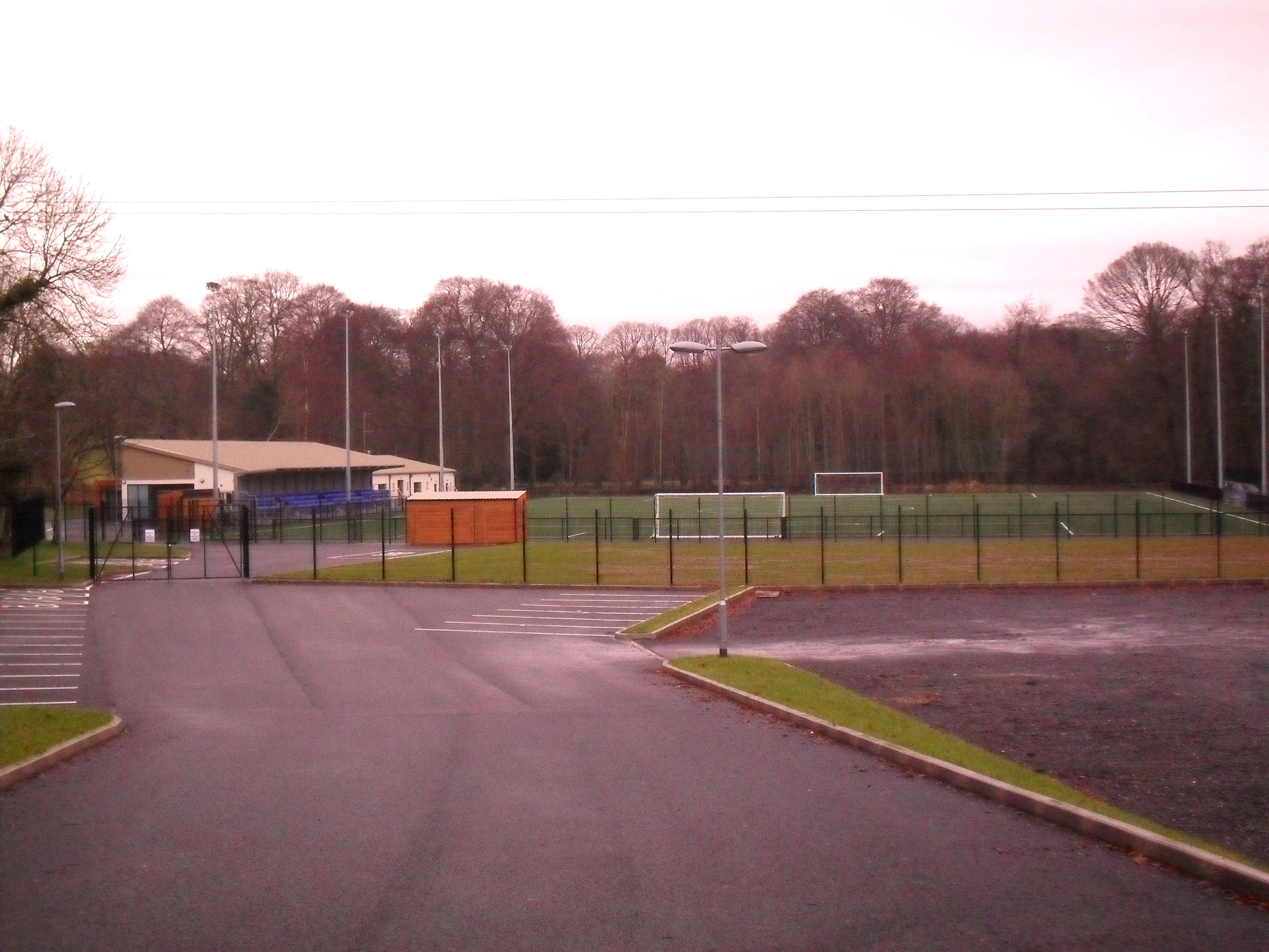 Mill Meadow, Castledawson The 2010 inaugurated home of Moyola Park F.C. - having moved from their ground of 129 years. It features a 3G artificial surface and permanent clubhouse. Located on Bridge Street. Irish Grid: H 929 934 [100m precision] WGS84: 54:46.8093N 6:33.3863W